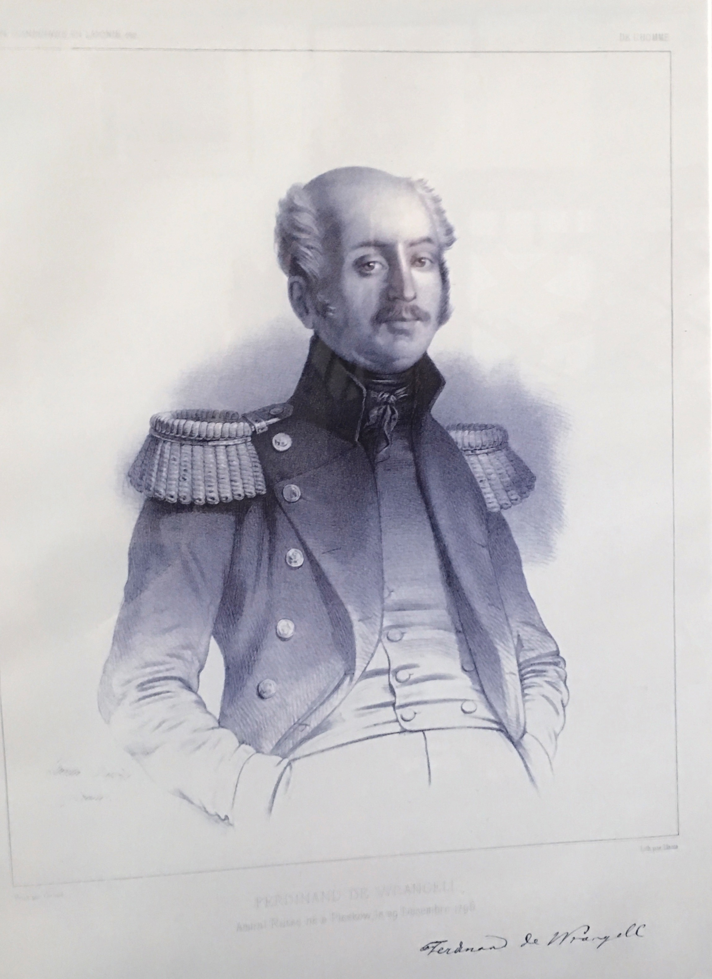 Ferdinand von Wrangel, ca. 1827